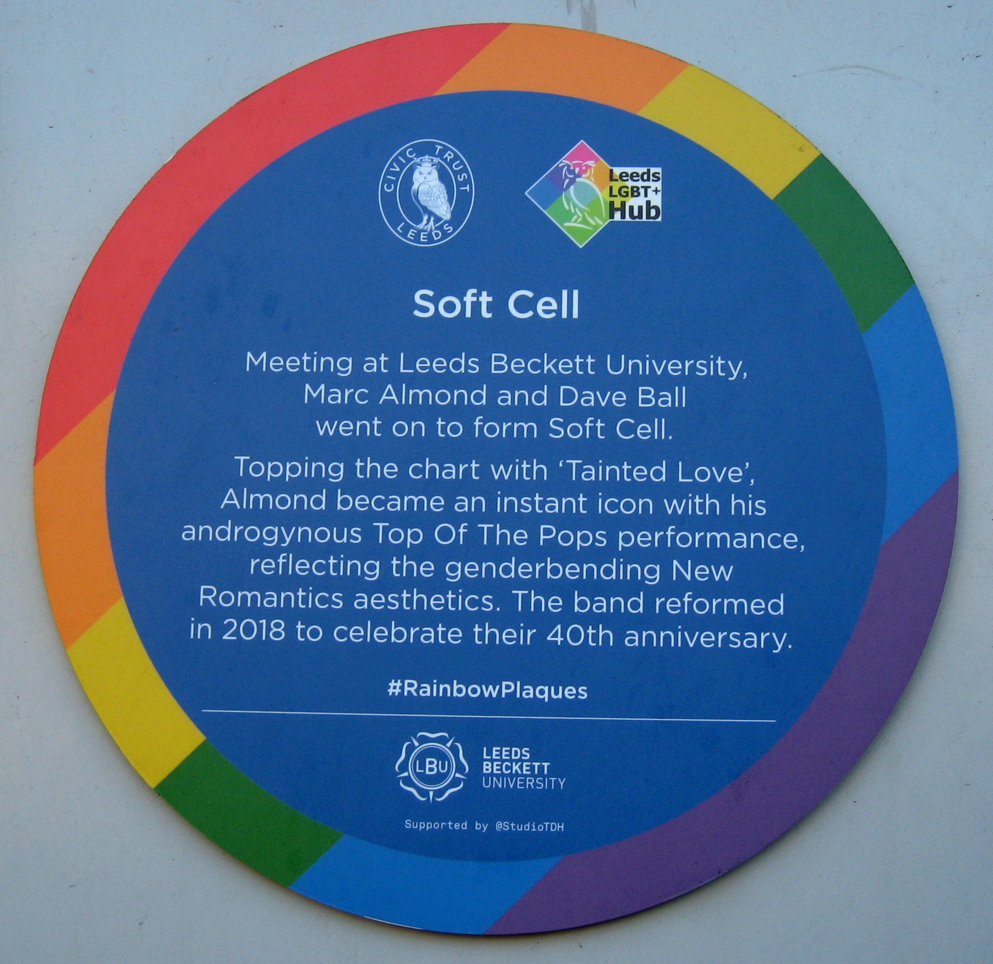 Soft Cell Rainbow Plaque on the Woodhouse Building of Leeds Beckett University, Woodhouse Lane, near the corner with Portland Way (and close to the finger post).